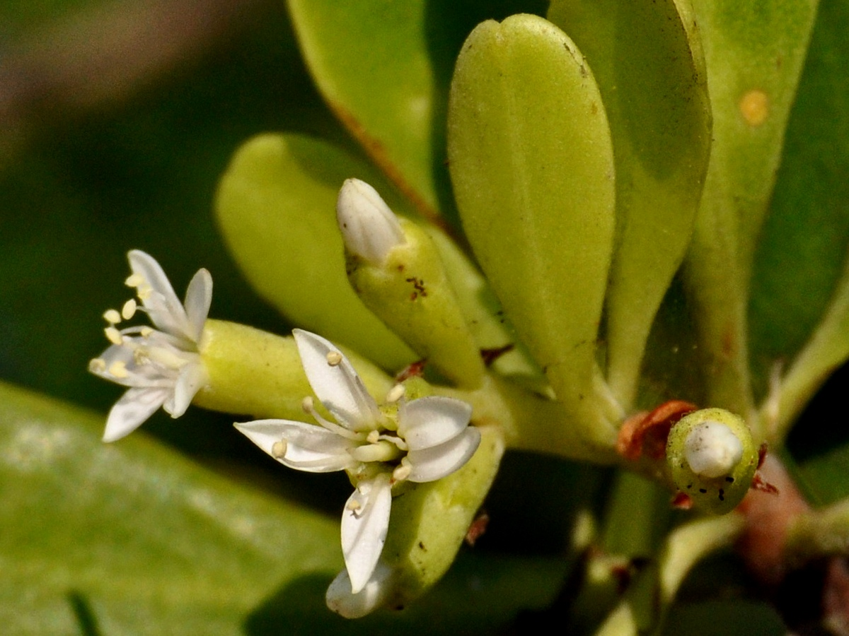 Inflorescence of Black Mangrove (Lumnitzera racemosa); from Bama Beach, Baluran National Park, East Java, Indonesia